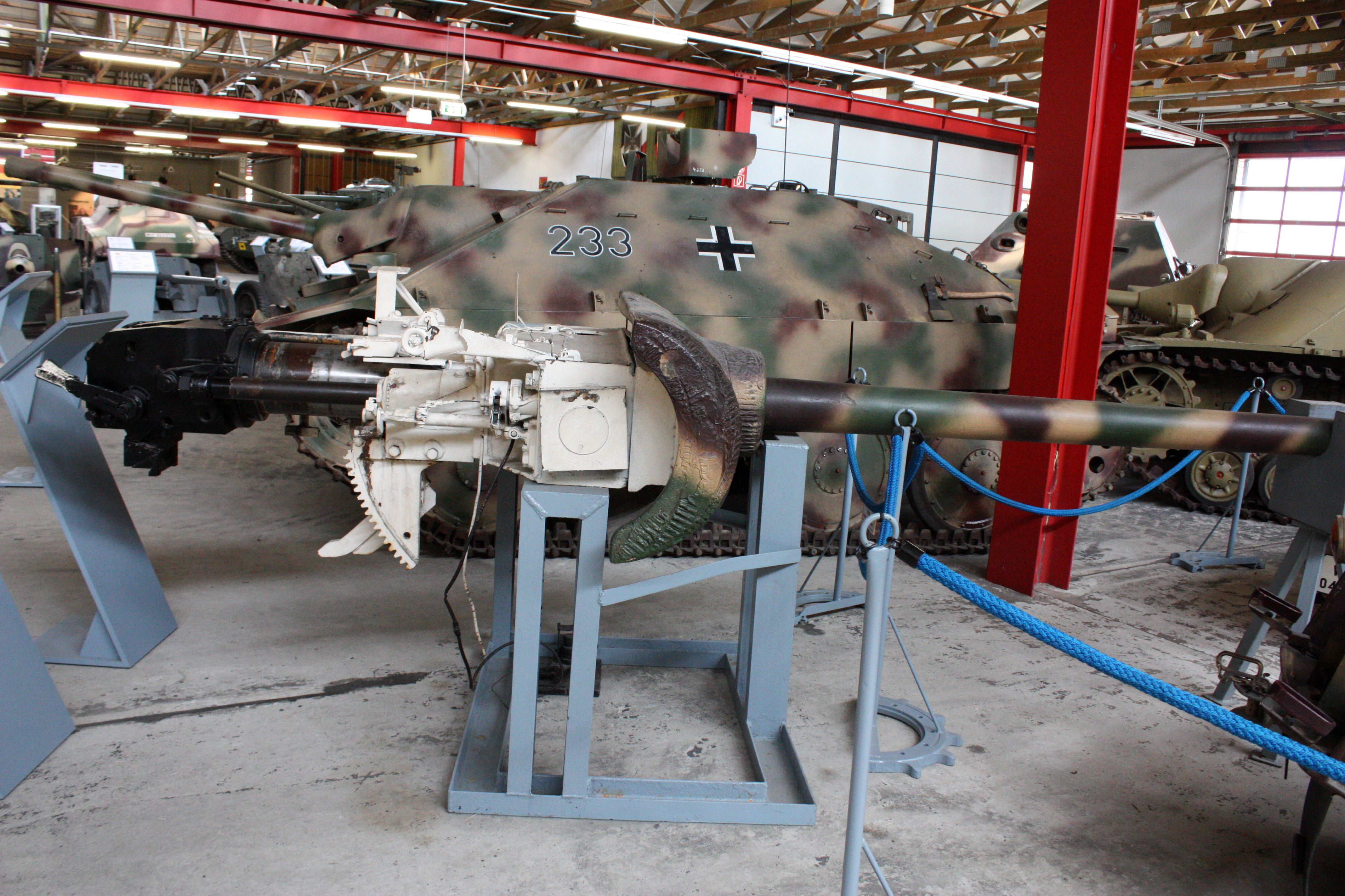 German Tank Museum